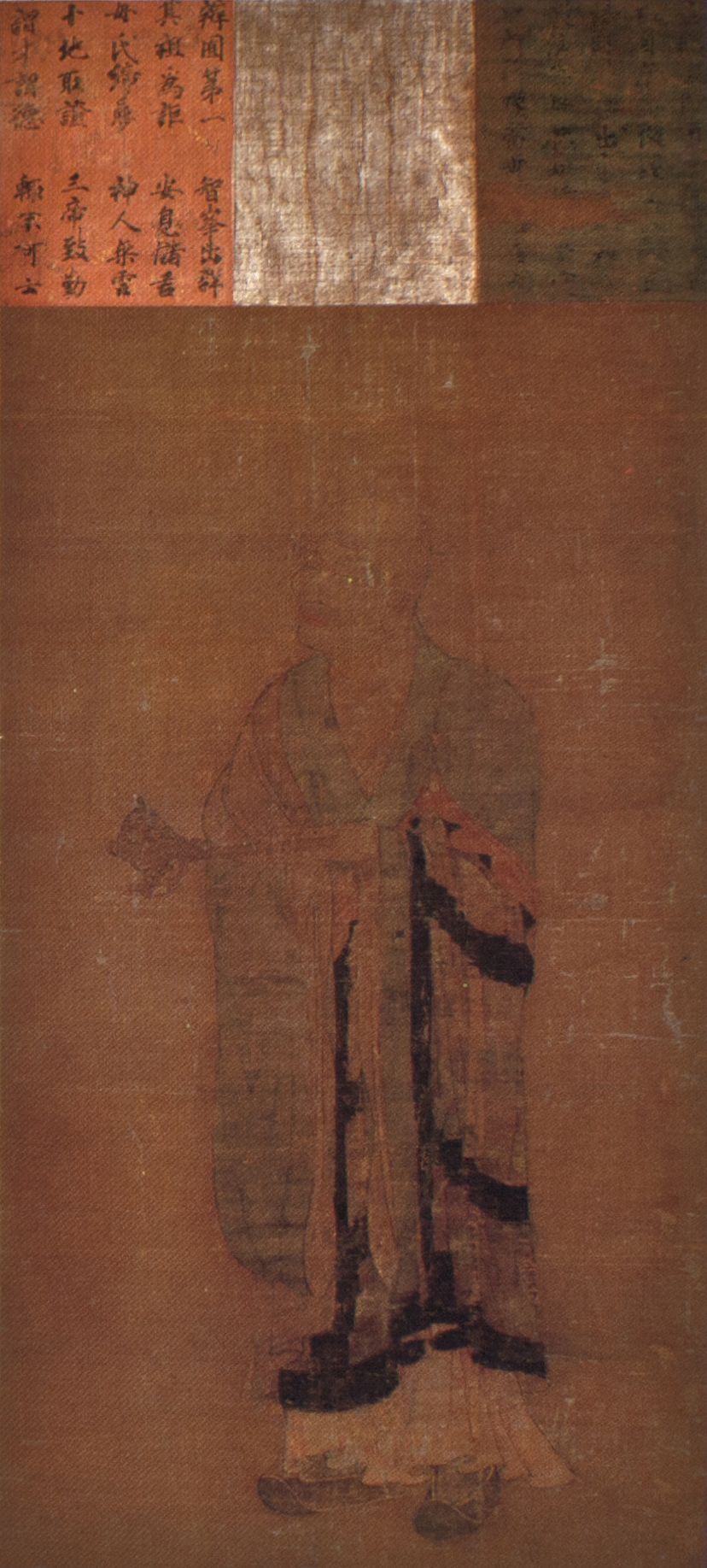 13thC, Todaiji, Nara, Japan